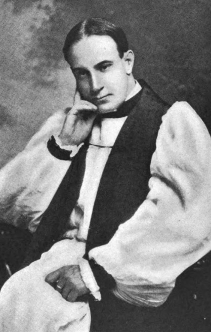 The Rt. Rev. George Biller Jr., Episcopal Bishop of South Dakota, consecrated September 18, 1912.